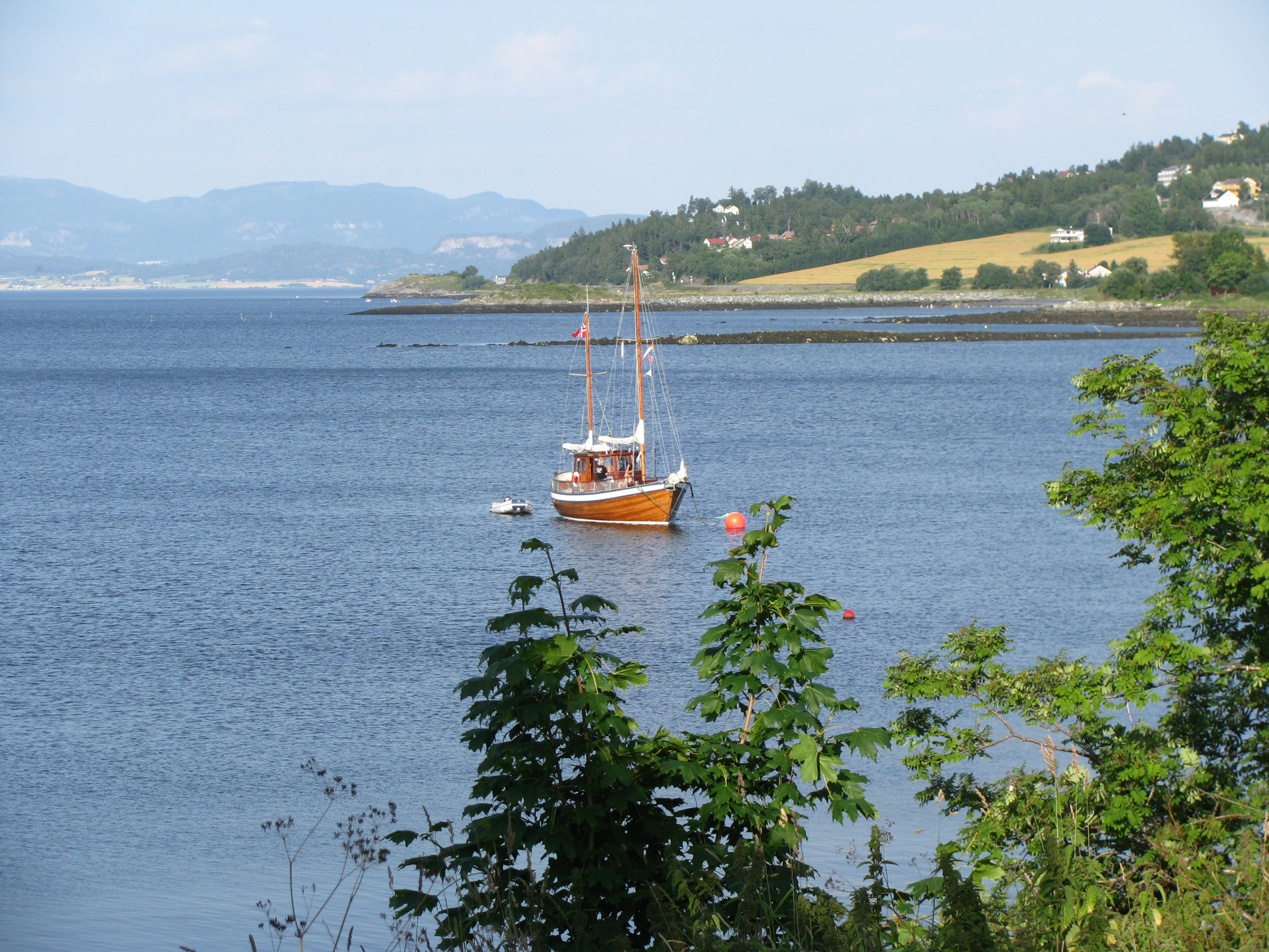 Wooden boat in Trondheimsfjord. August 2010. Ranheim borough, Trondheim municipality, Norway.